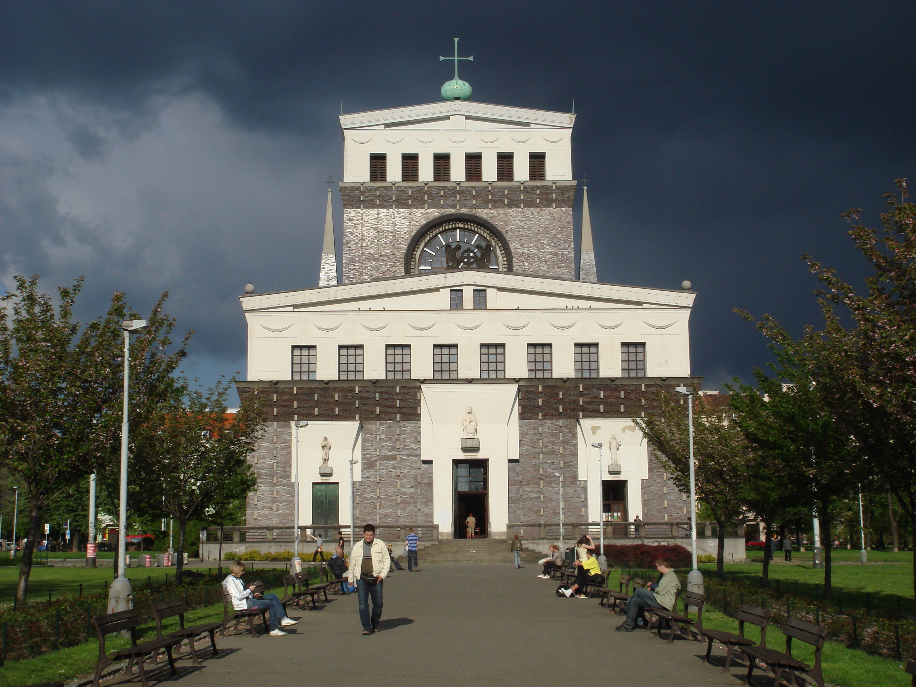 Church of the Sacred Heart of Jesus on the Jiří z Poděbrad Square (Prague, Czech Republic).